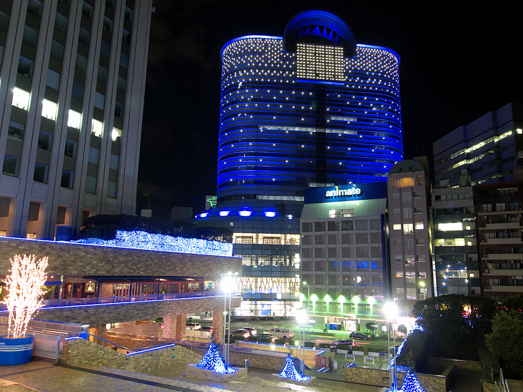 i